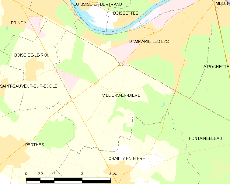 Map of French municipality Villiers-en-Bière